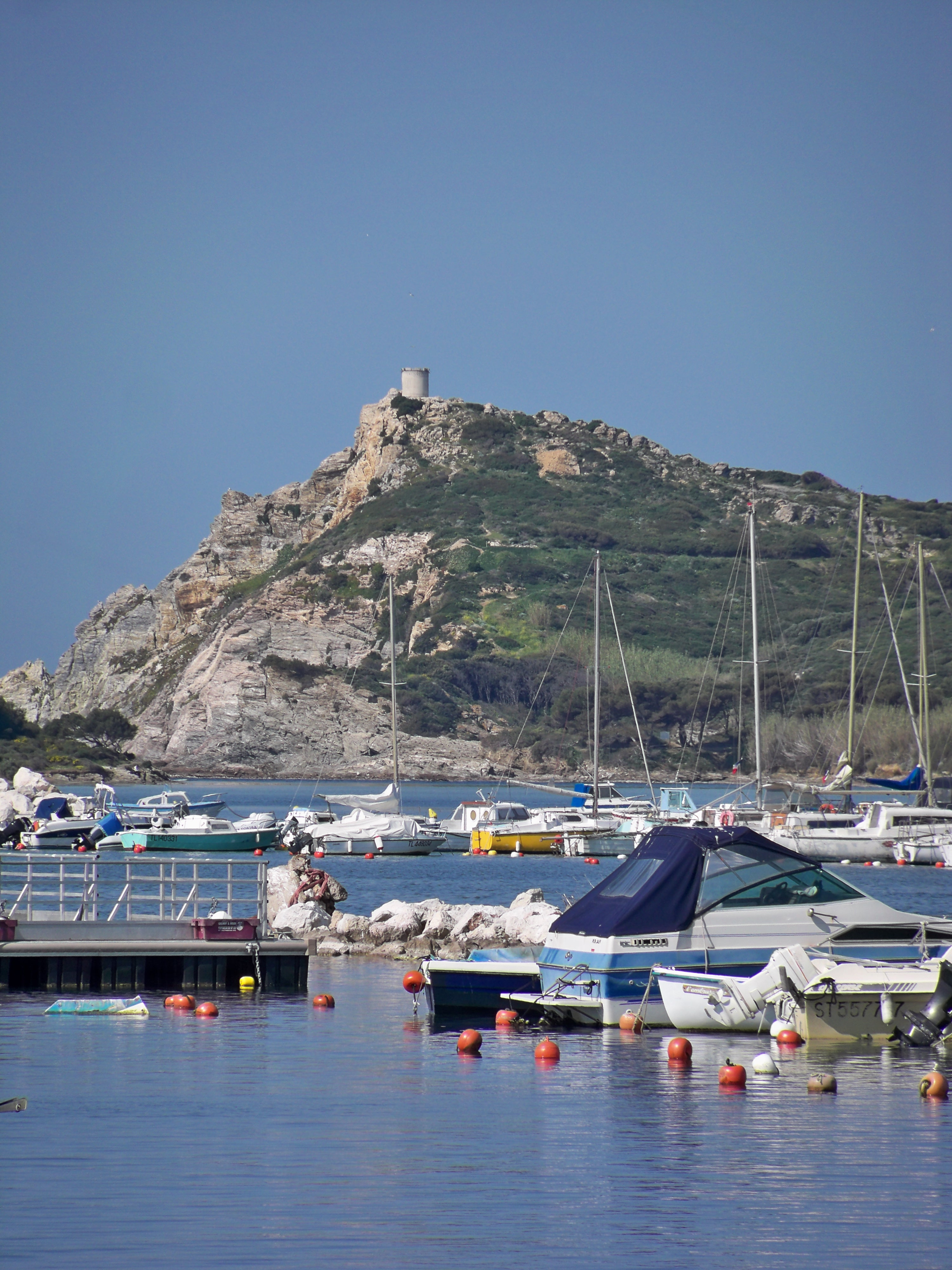 Embiez Isle, near Six-Fours, and Le Brusc harbour